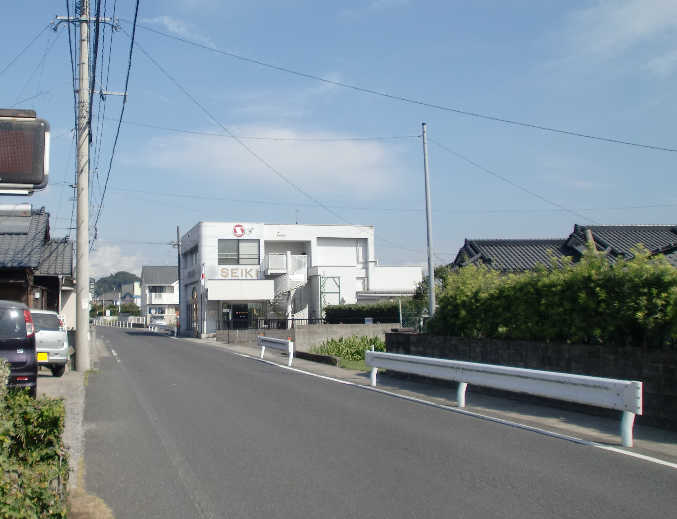 The Kagoshima Prefectural Road Route 210 in Kamifukumotocho, Kagoshima City, view towards Koyamada